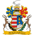 Coat of arms of Pusztafalu, Hungary